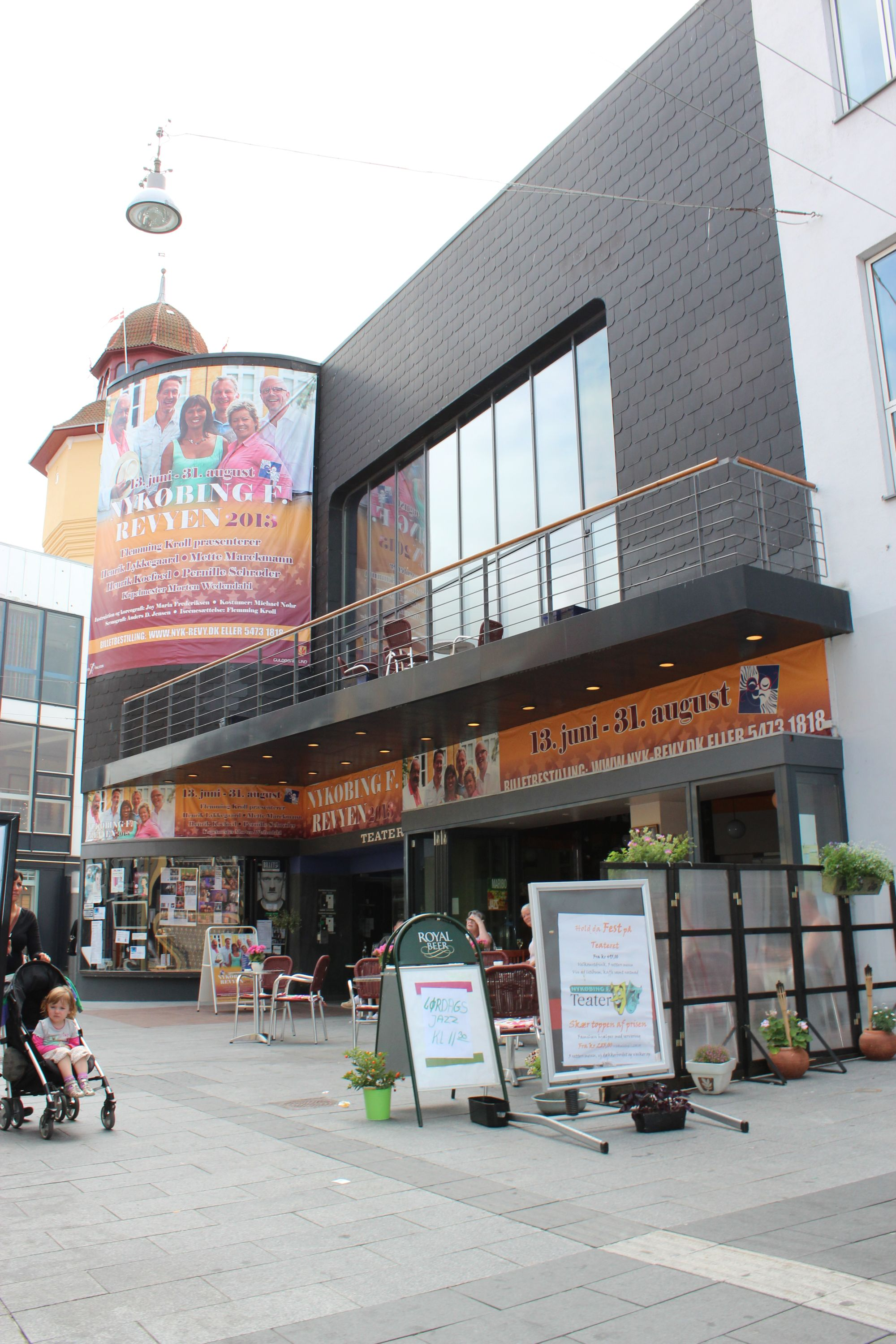 Nykøbing Teater in Nykøbing Falster, Denmark, with poster for Nykøbing F. Revyen.